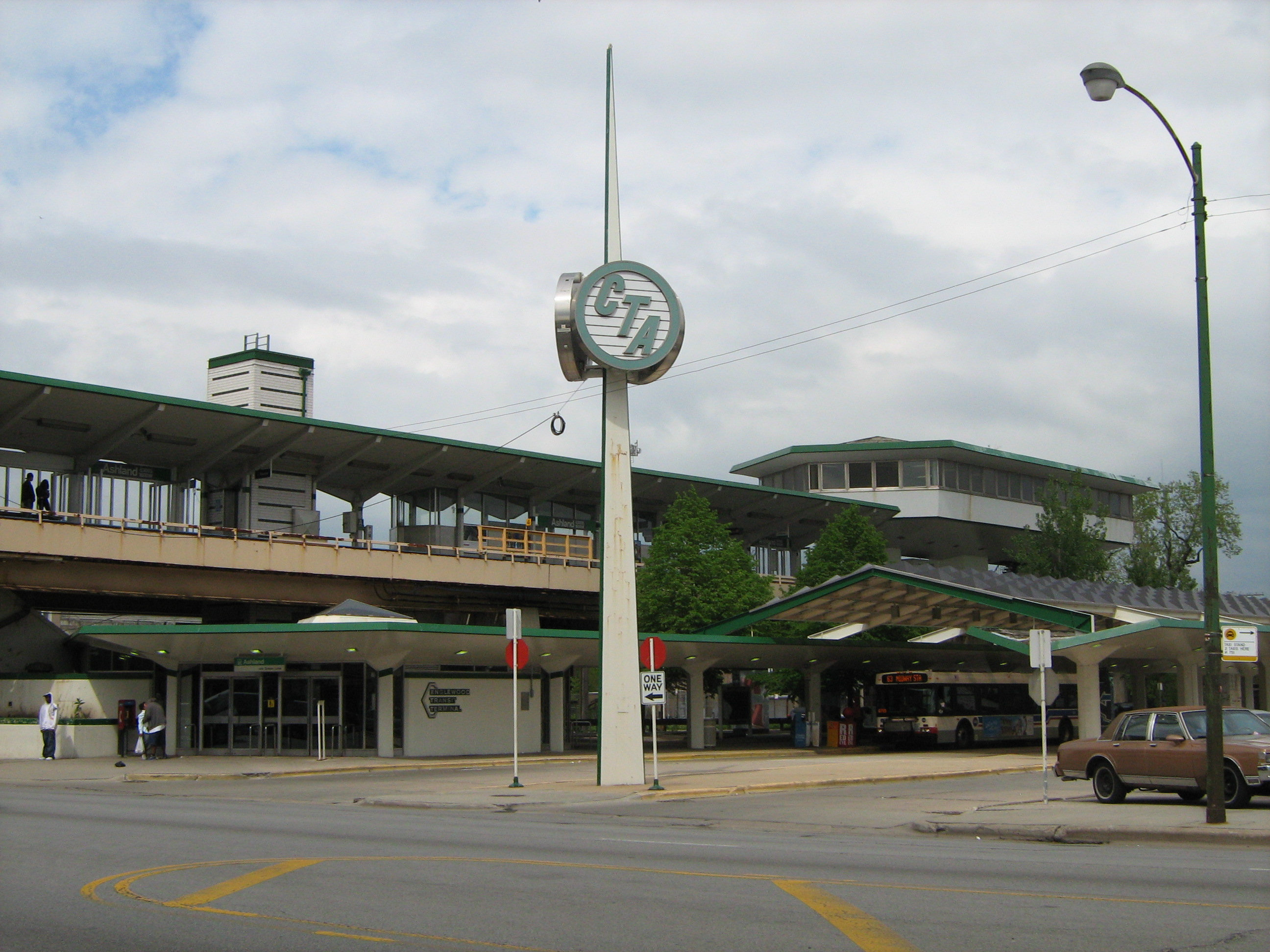 63rd Street & Ashland Avenue (6300S/1600W) 6315 S. Ashland Avenue, Chicago, IL 60636, Green Line (Englewood Branch)